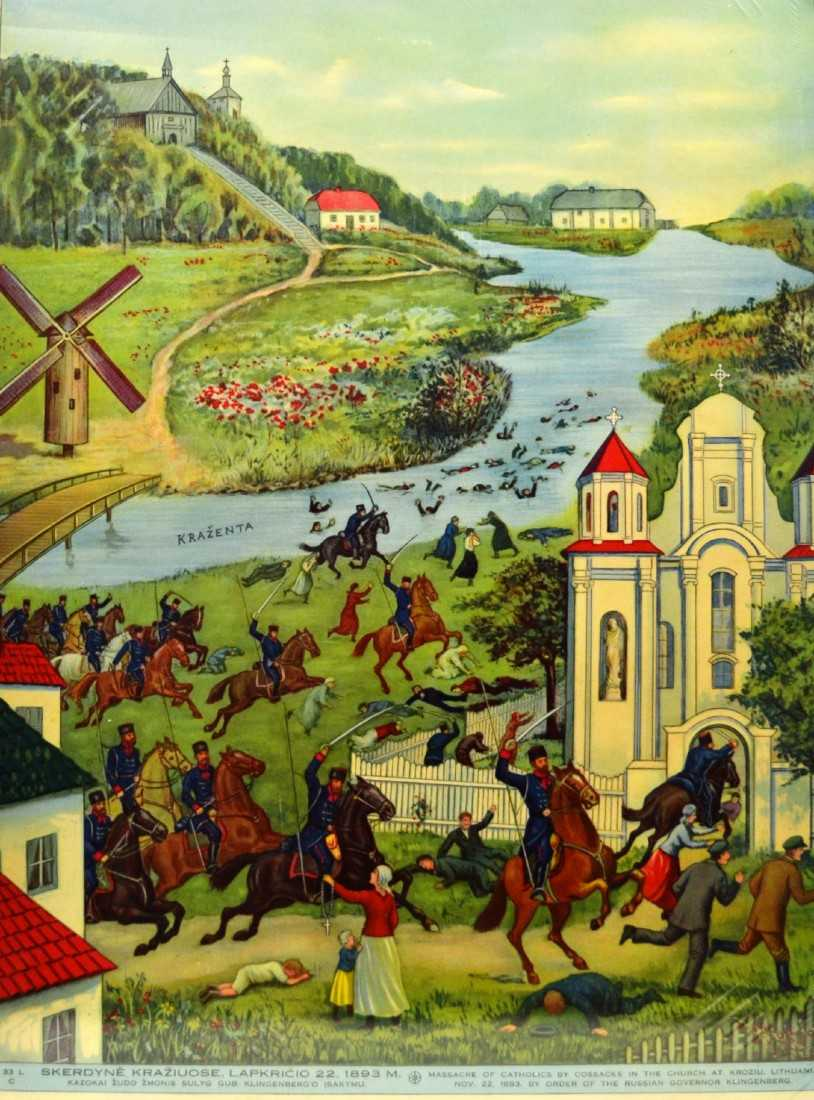 Poster commemorating Kražiai Massacre (1893) published in the United States (48 x 37 cm)